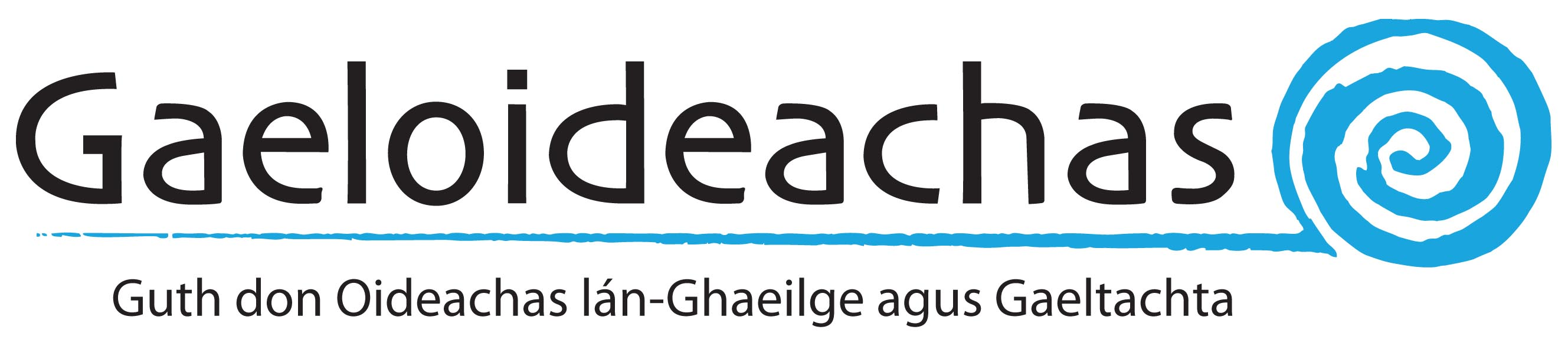 Gaeloideachas logo